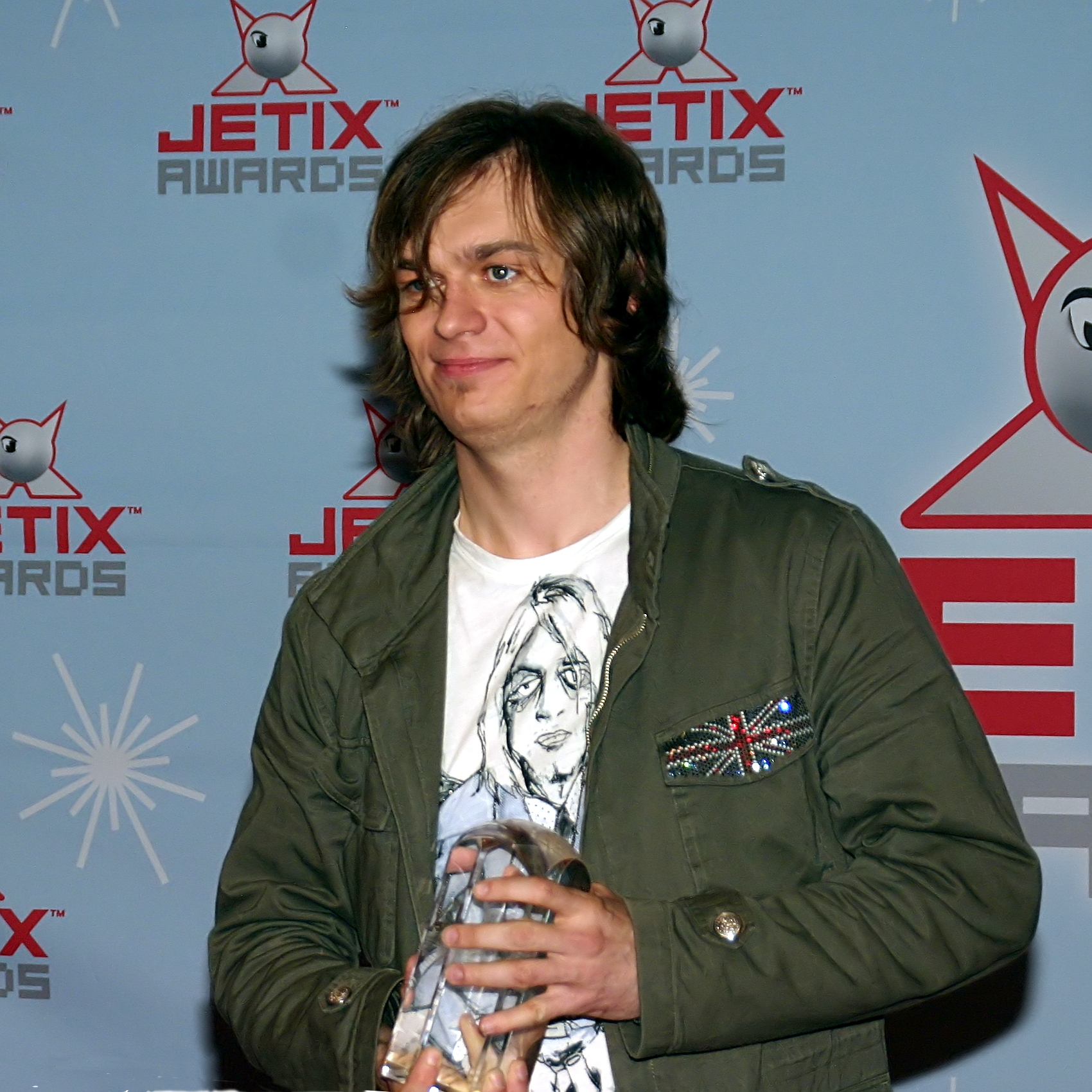 Thomas Godoij during the conferment of the JETIX Award at the youth fair "YOU", Berlin